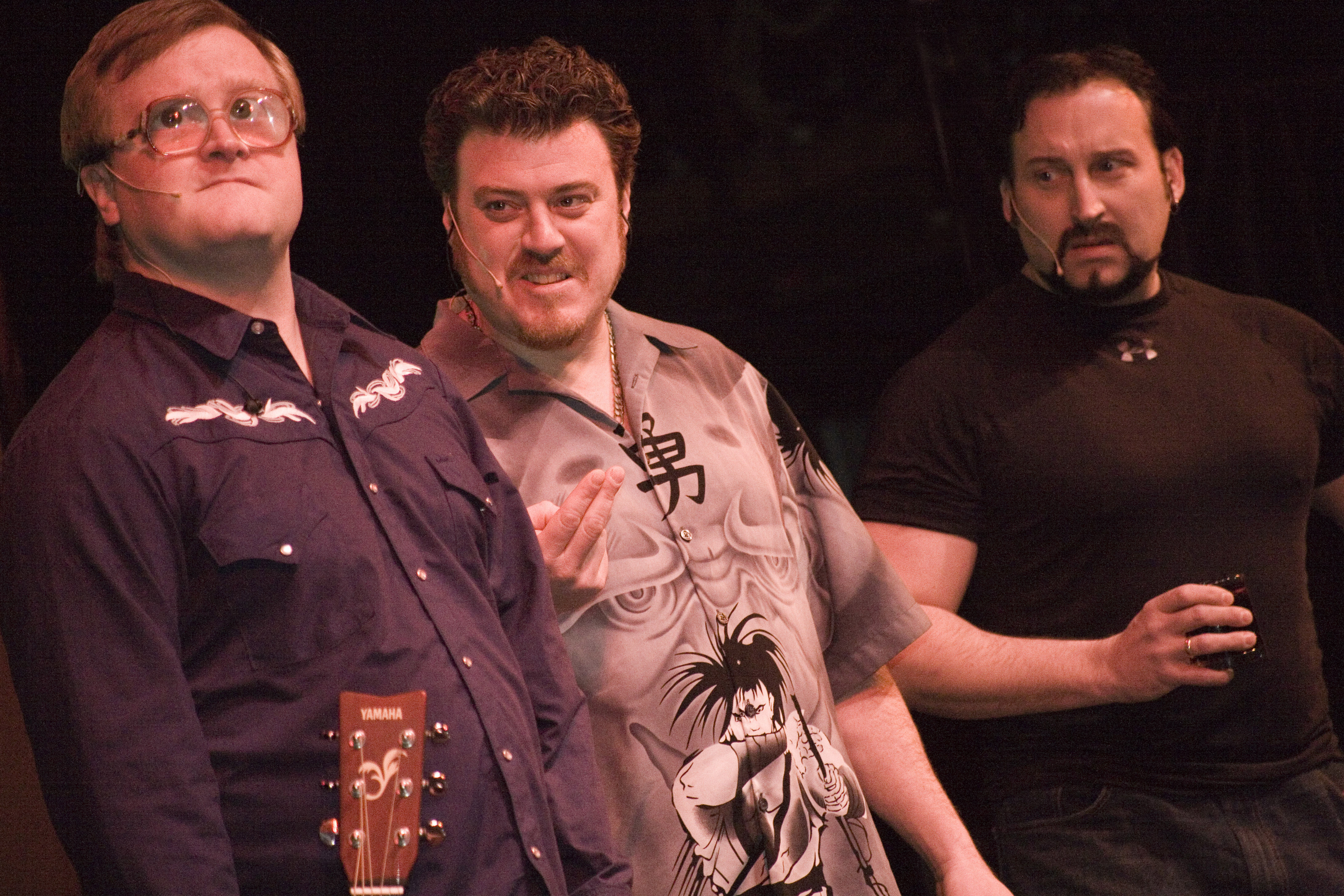 The Trailer Park Boys from the Canadian mockumentary television series, Mike Smith (Bubbles, l) Robb Wells (Ricky, c) and John Paul Tremblay (Julian, r).